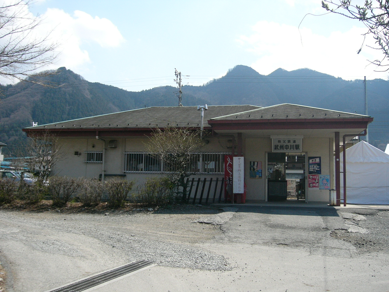 Bushu-nakagawa Station on the Chichibu Main Line in Saitama Prefecture, Japan